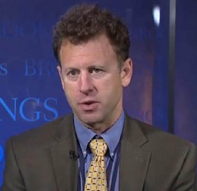 Michael E. O'Hanlon in 2015